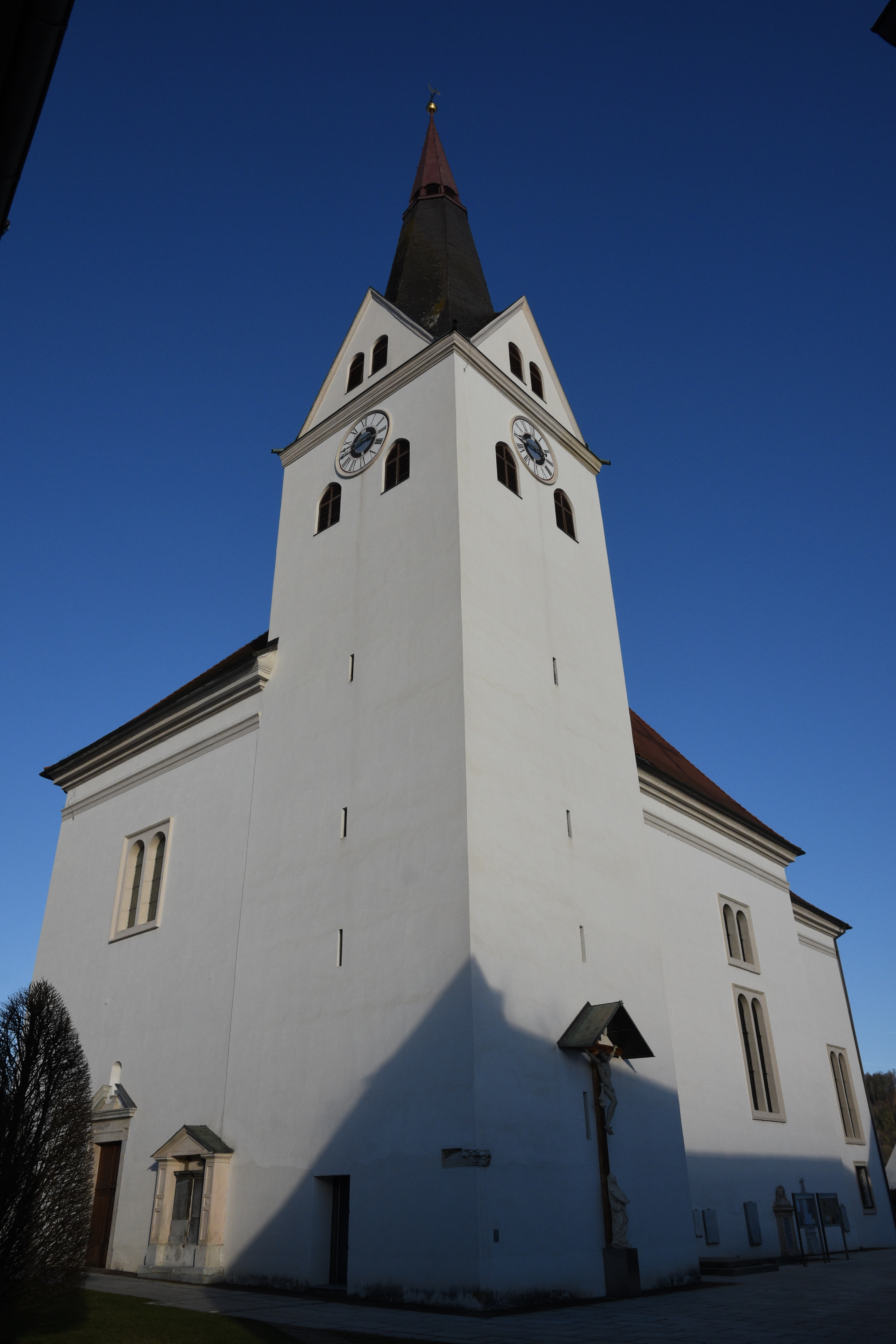 Mary Magdalene Church Köflach